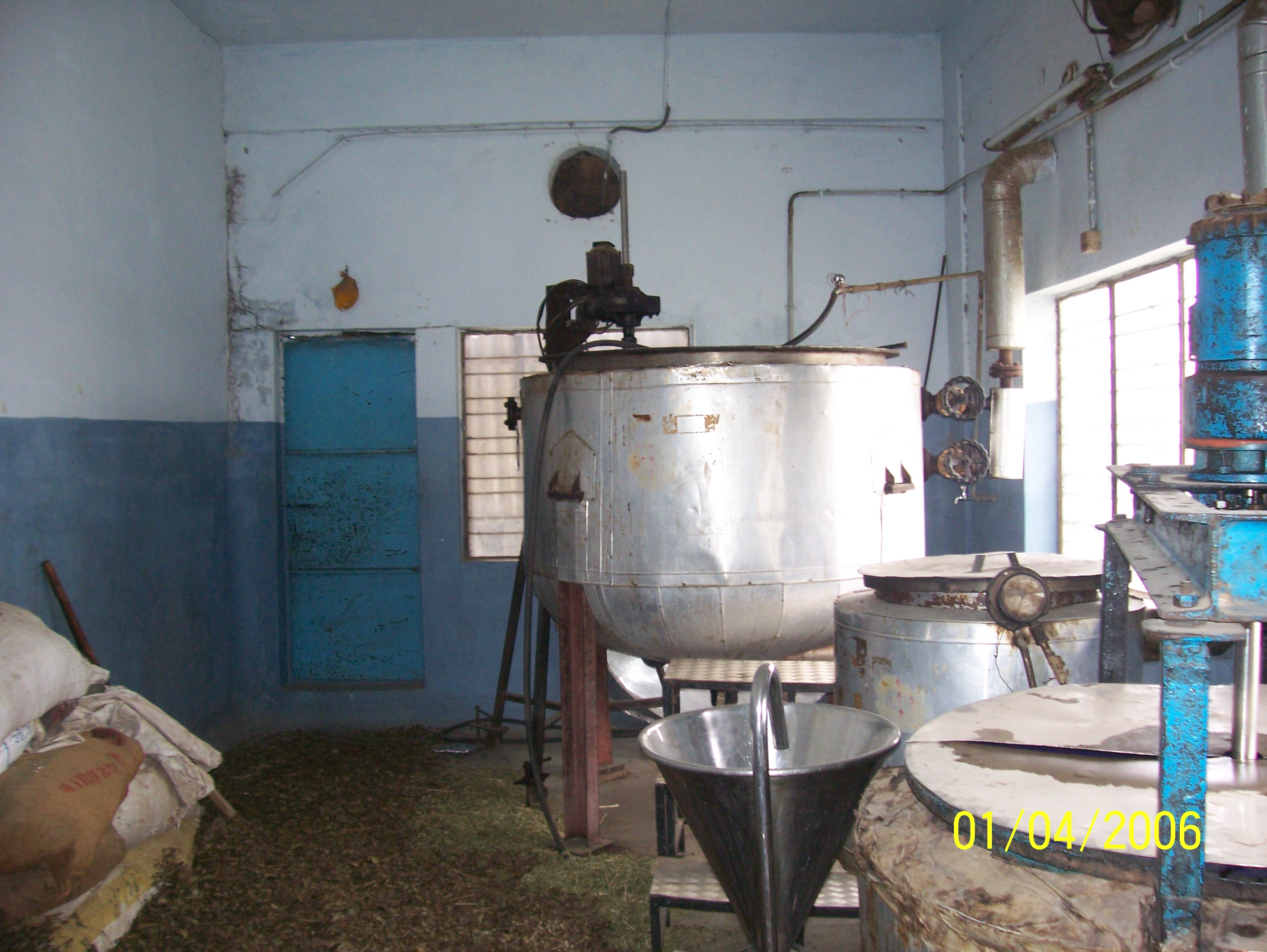 machine in the pharmci, imjapur